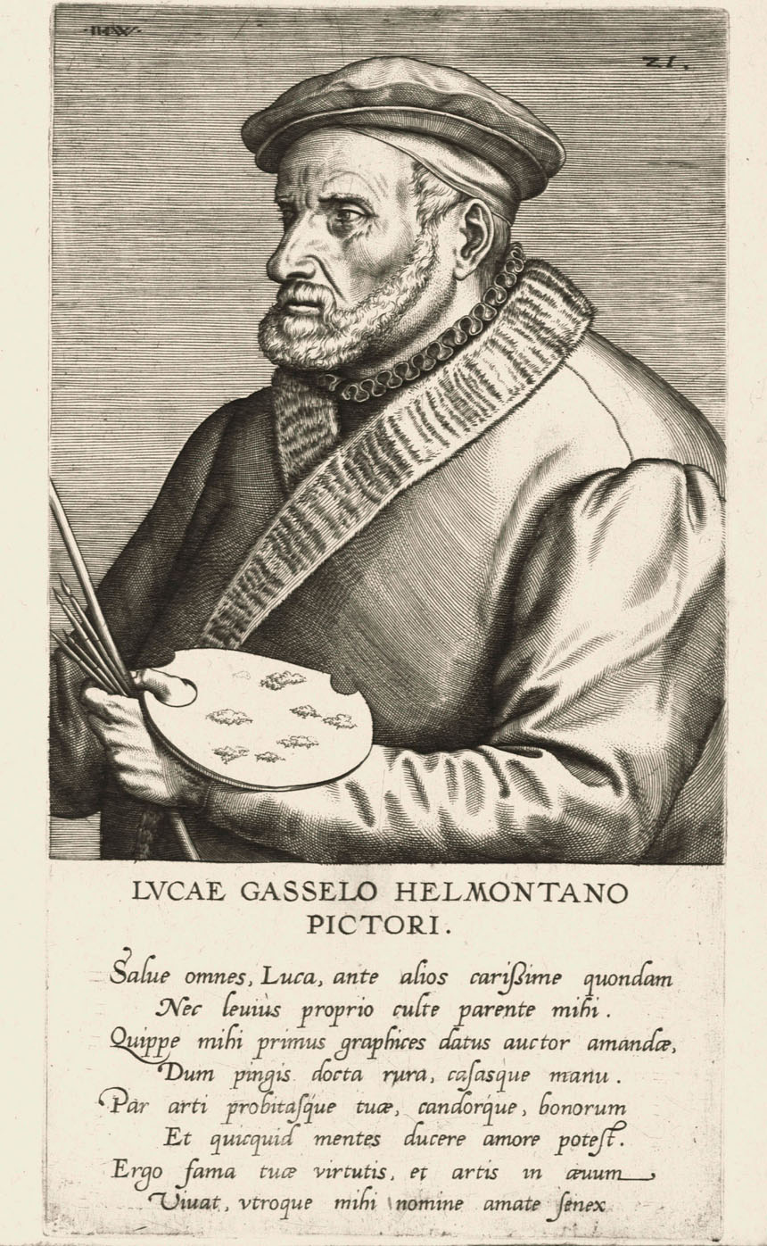 Portrait of Lucas Gassel attributed to Johannes (Jan) Wierix, engraving, 1572, from the Pictorum aliquot Germaniae Inferioris Effigies by Dominicus Lampsonius